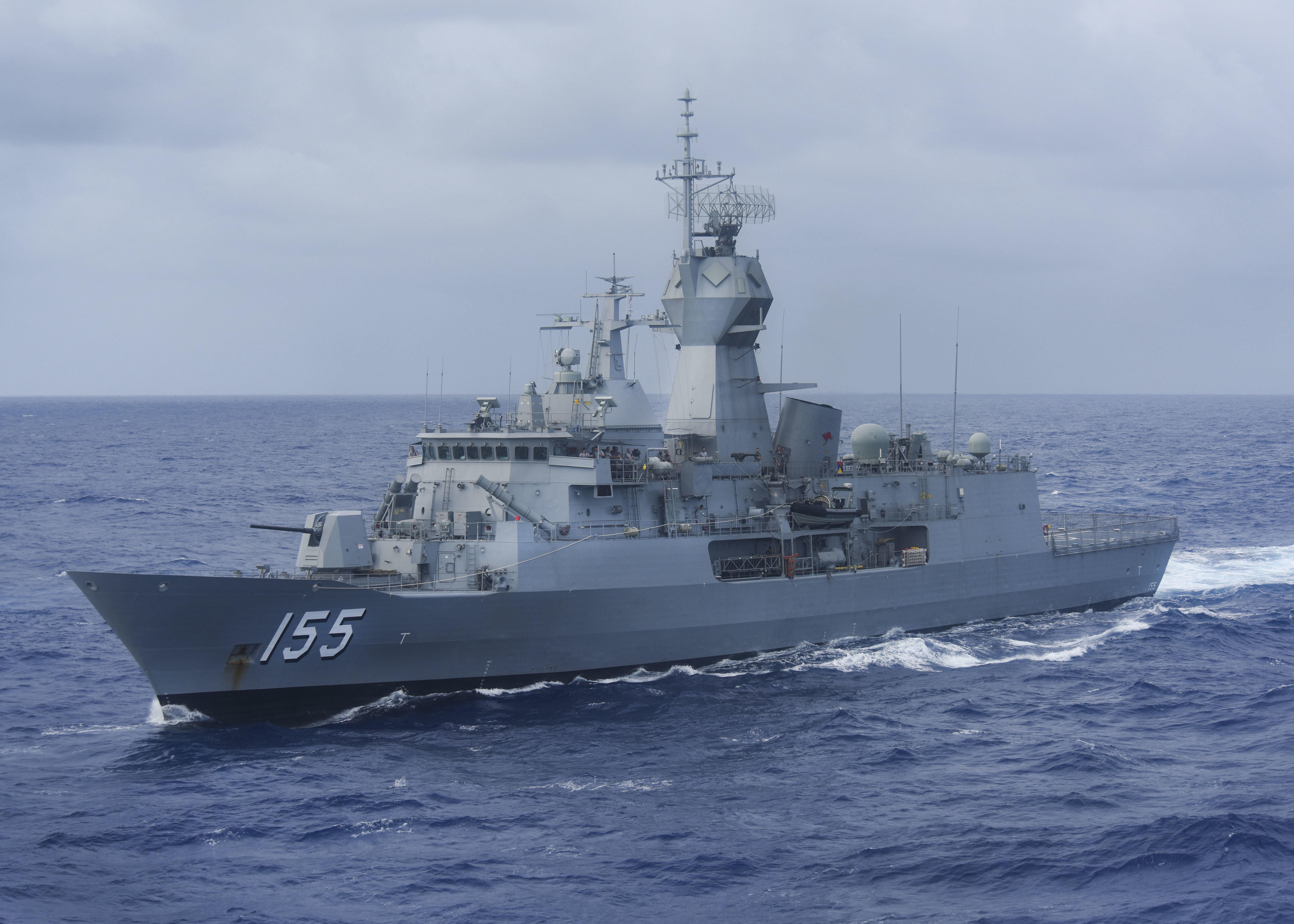 160723-N-KR702-086 PACIFIC OCEAN (July 23, 2016) –The Royal Australian Navy Anzac Class frigate HMAS Ballarat (FFH 155) prepares to conduct an underway replenishment during Rim of the Pacific 2016. Twenty-six nations, more than 40 ships and submarines, more than 200 aircraft and 25,000 personnel are participating in RIMPAC from June 30 to Aug. 4, in and around the Hawaiian Islands and Southern California. The world's largest international maritime exercise, RIMPAC provides a unique training opportunity that helps participants foster and sustain the cooperative relationships that are critical to ensuring the safety of sea lanes and security on the world's oceans. RIMPAC 2016 is the 25th exercise in the series that began in 1971. (U.S. Navy photo by Mass Communication Specialist 2nd Class Holly L. Herline)